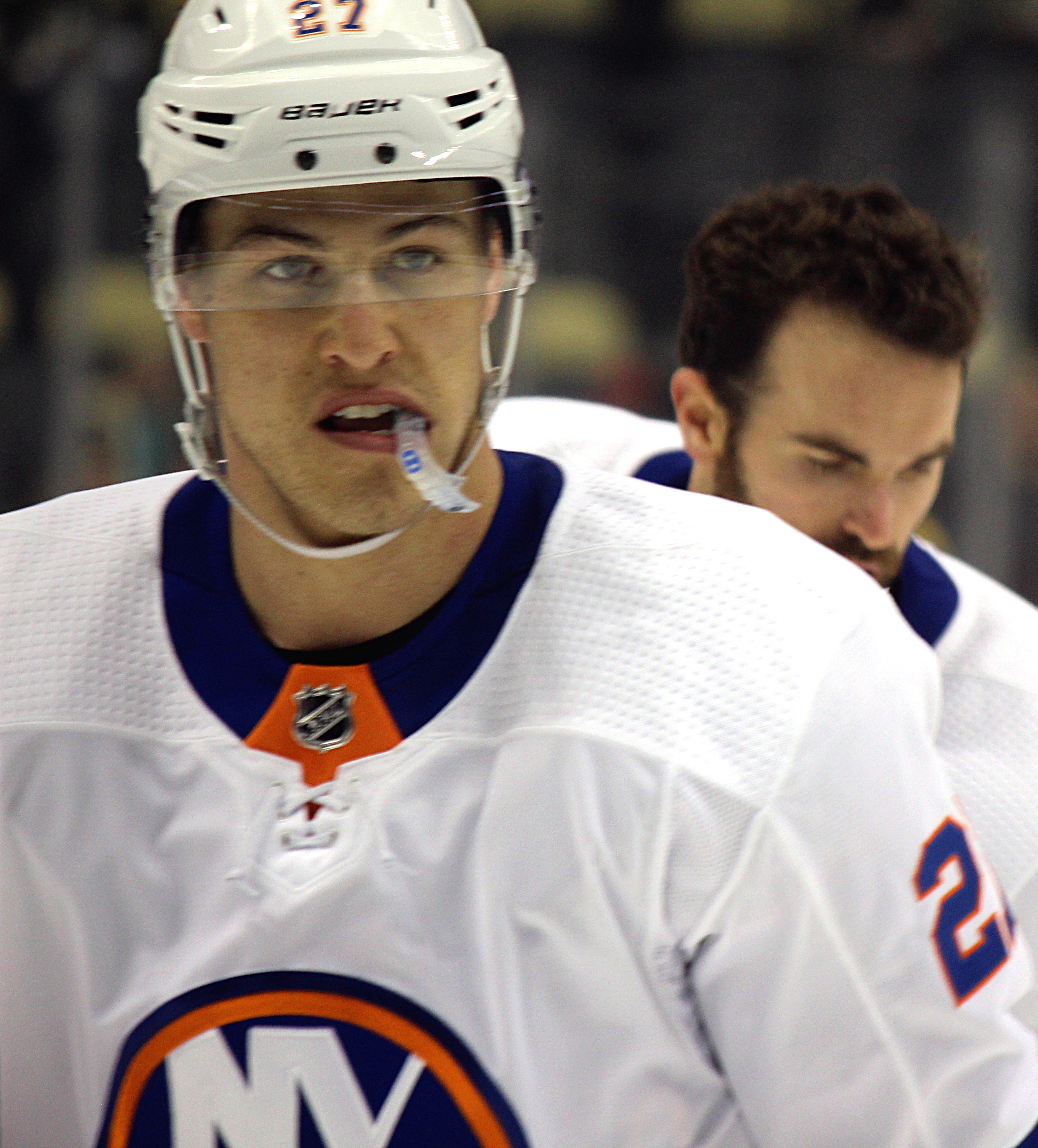 New Yorks Islanders forward Anders Lee during a game against the Pittsburgh Penguins at PPG Paints Arena in Pittsburgh, PA. Saturday, March 3, 2018.